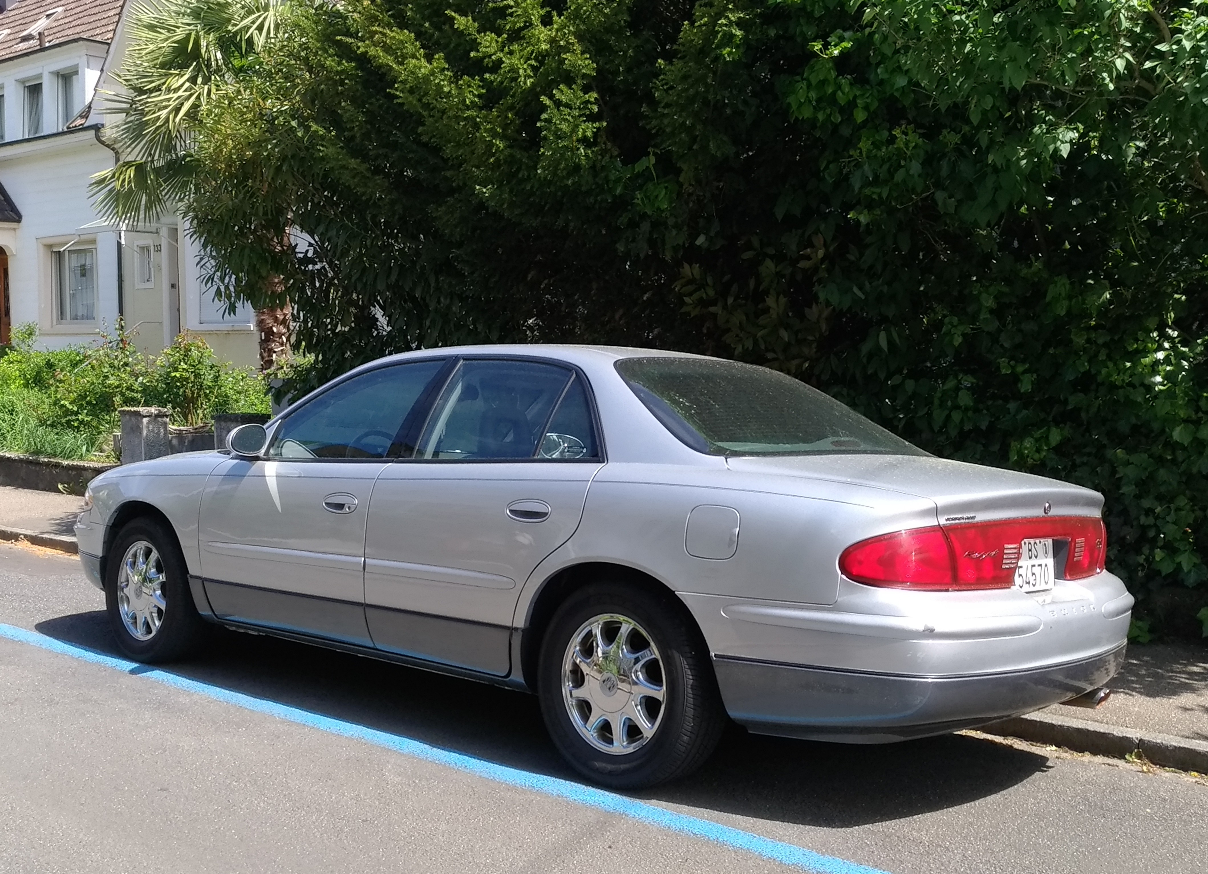 Buick Regal at Basel. Probably my best spot from Basel, very rare in Europe.